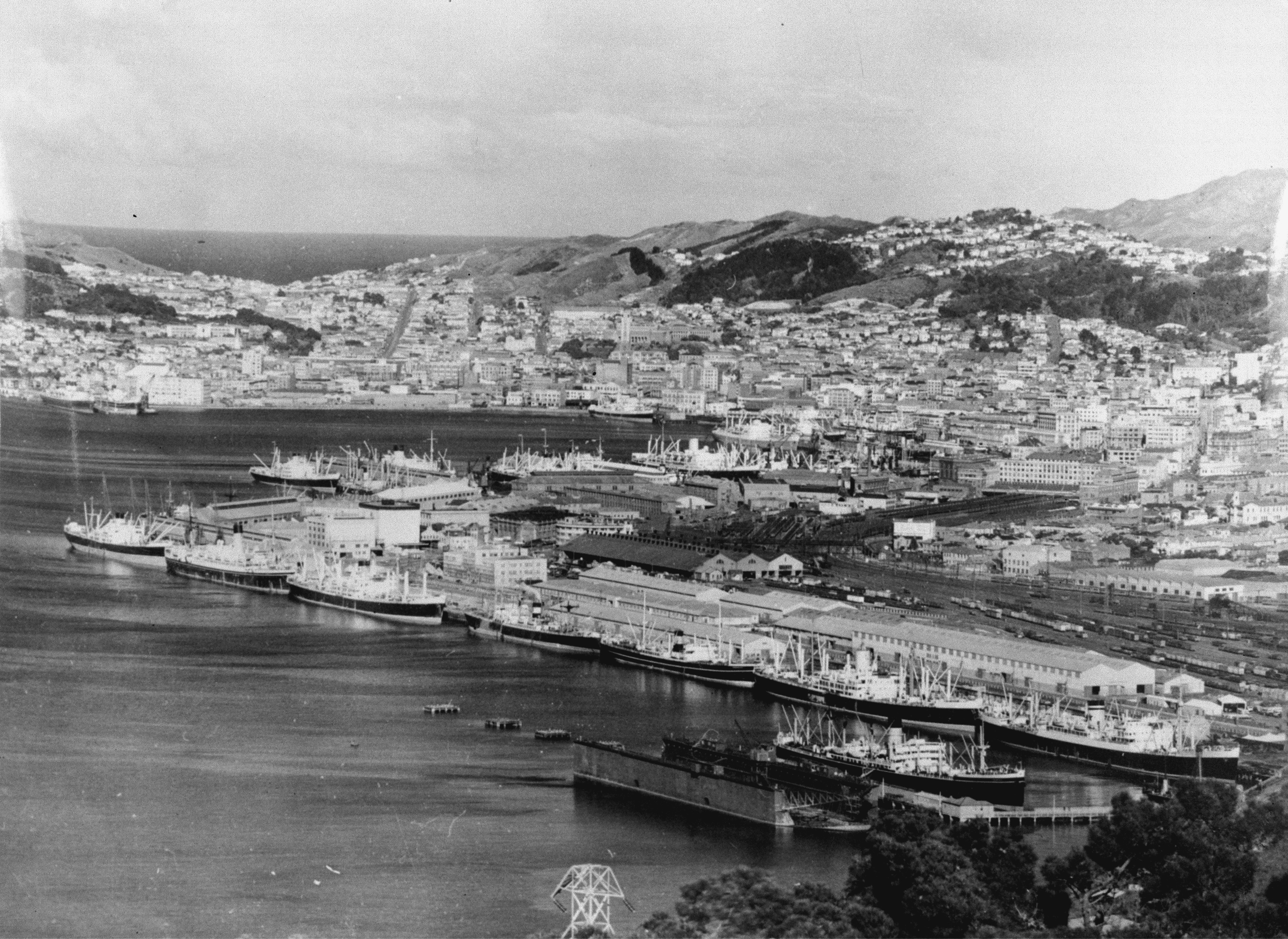 Photographer: William Hall Raine Ships in Wellington Harbour during the 1951 wharf strike, 1951 Reference number: 1/4-020602-F Original negative Photographic Archive, Alexander Turnbull Library from the